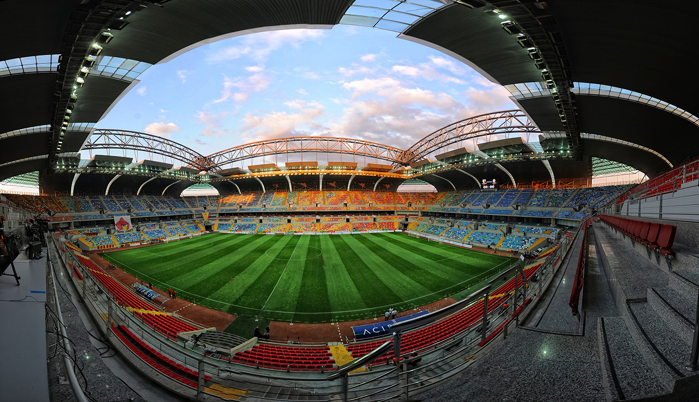 Kadir Has Stadium in Kayseri, Turkey